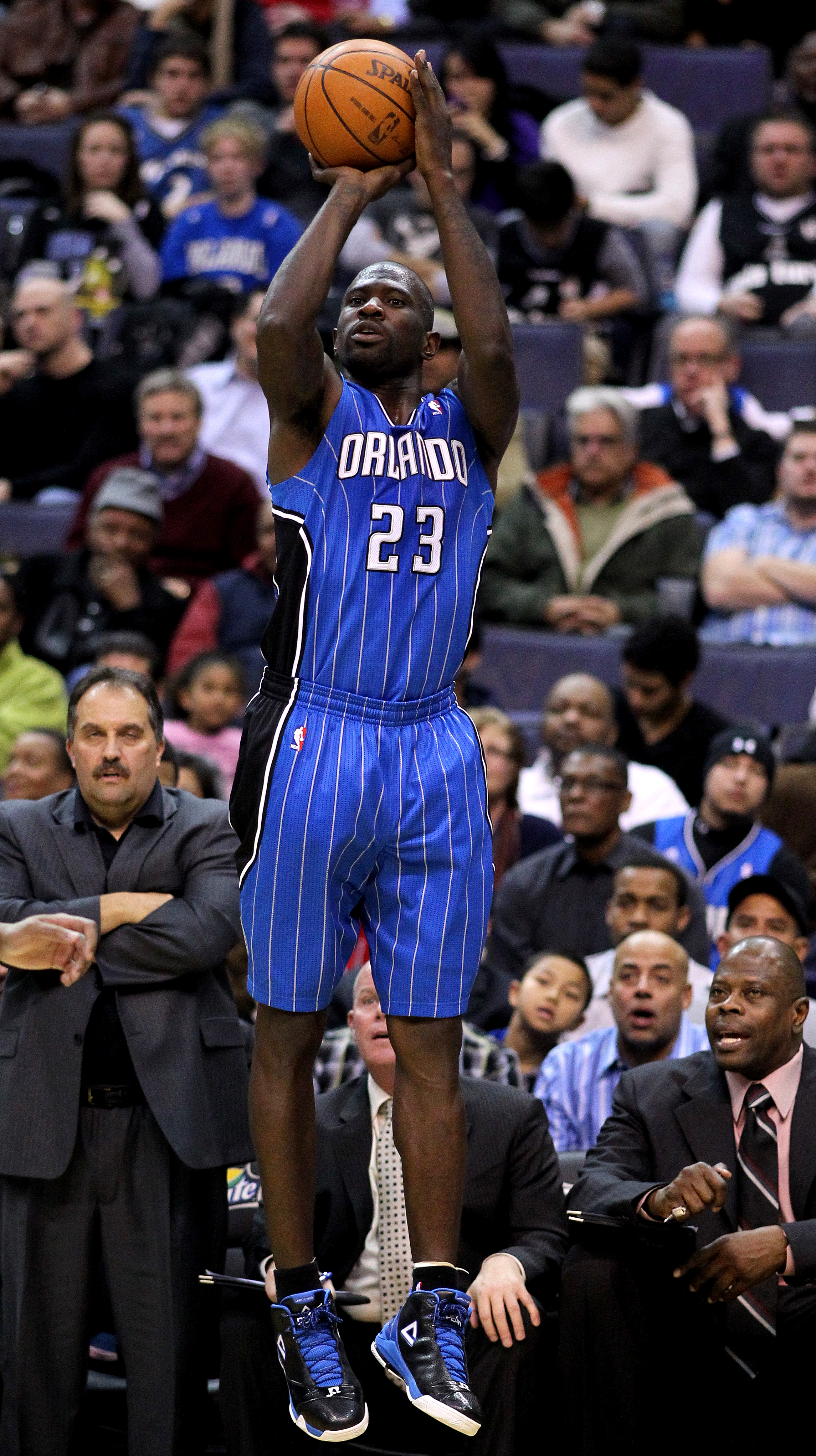 Jason Richardson playing with the Orlando Magic